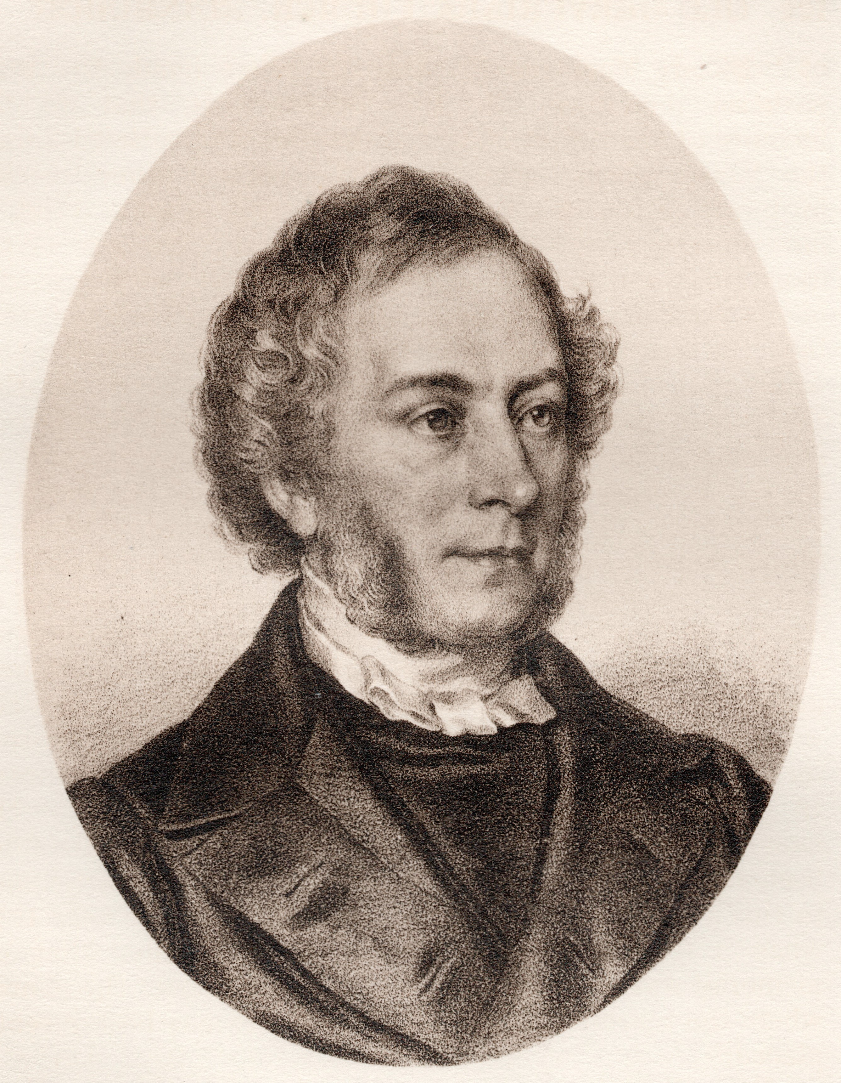 Robert Lee, minister of Old Greyfriars from 1843 to 1868. During his incumbency, he introduced a number of liturgical practices that were unusual in the Church of Scotland at the time.